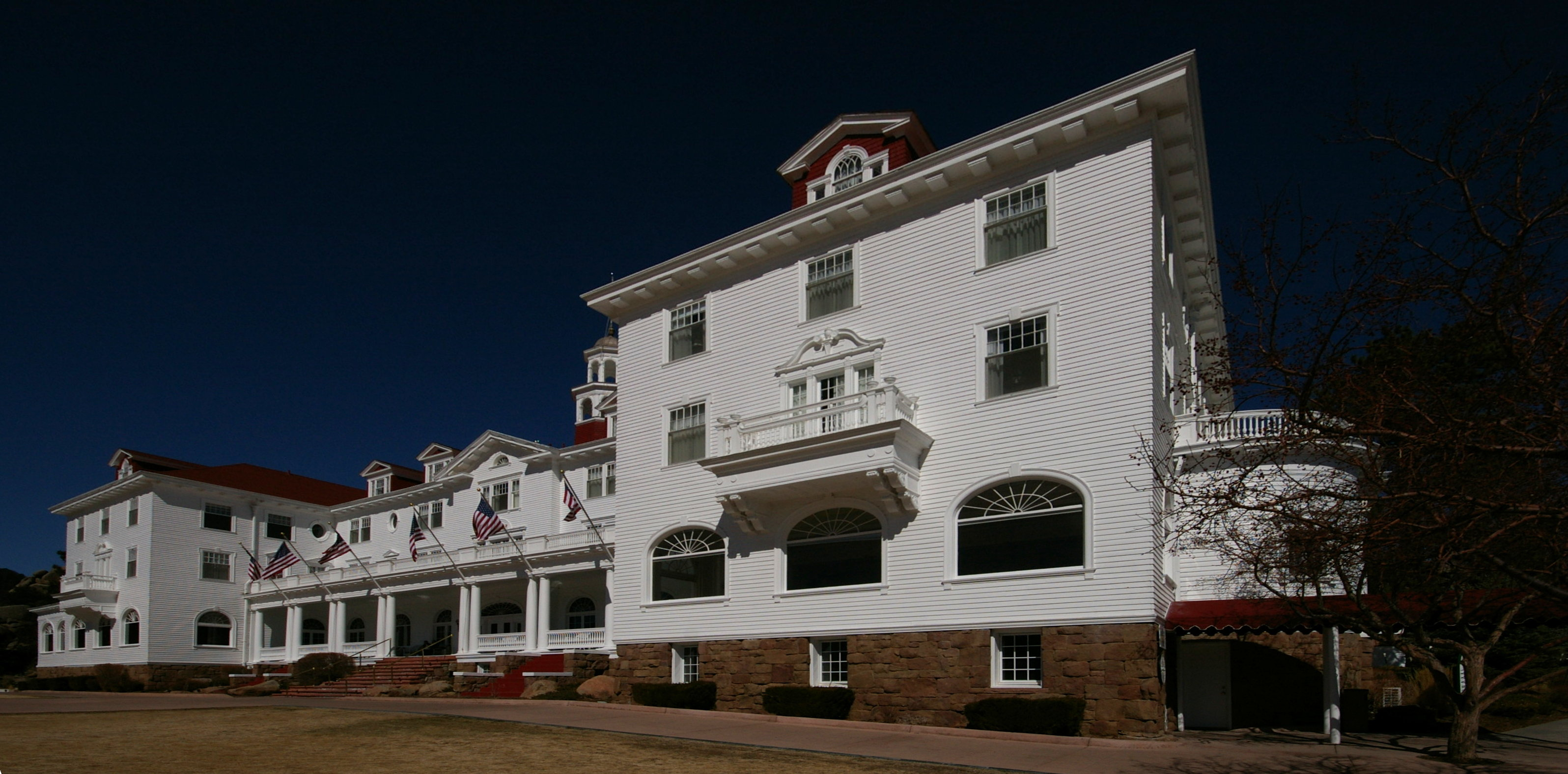 The main building of the Stanley Hotel in Estes Park, CO